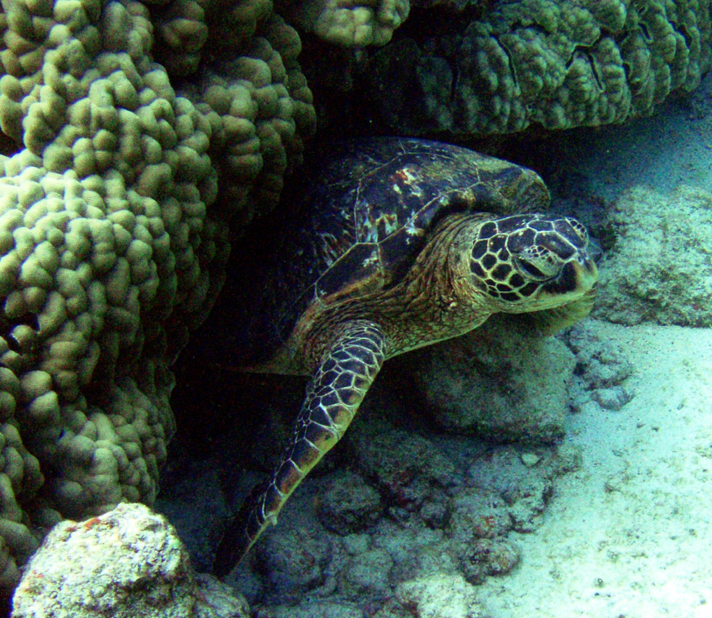 Green turtle, Chelonia mydas is resting under a coral